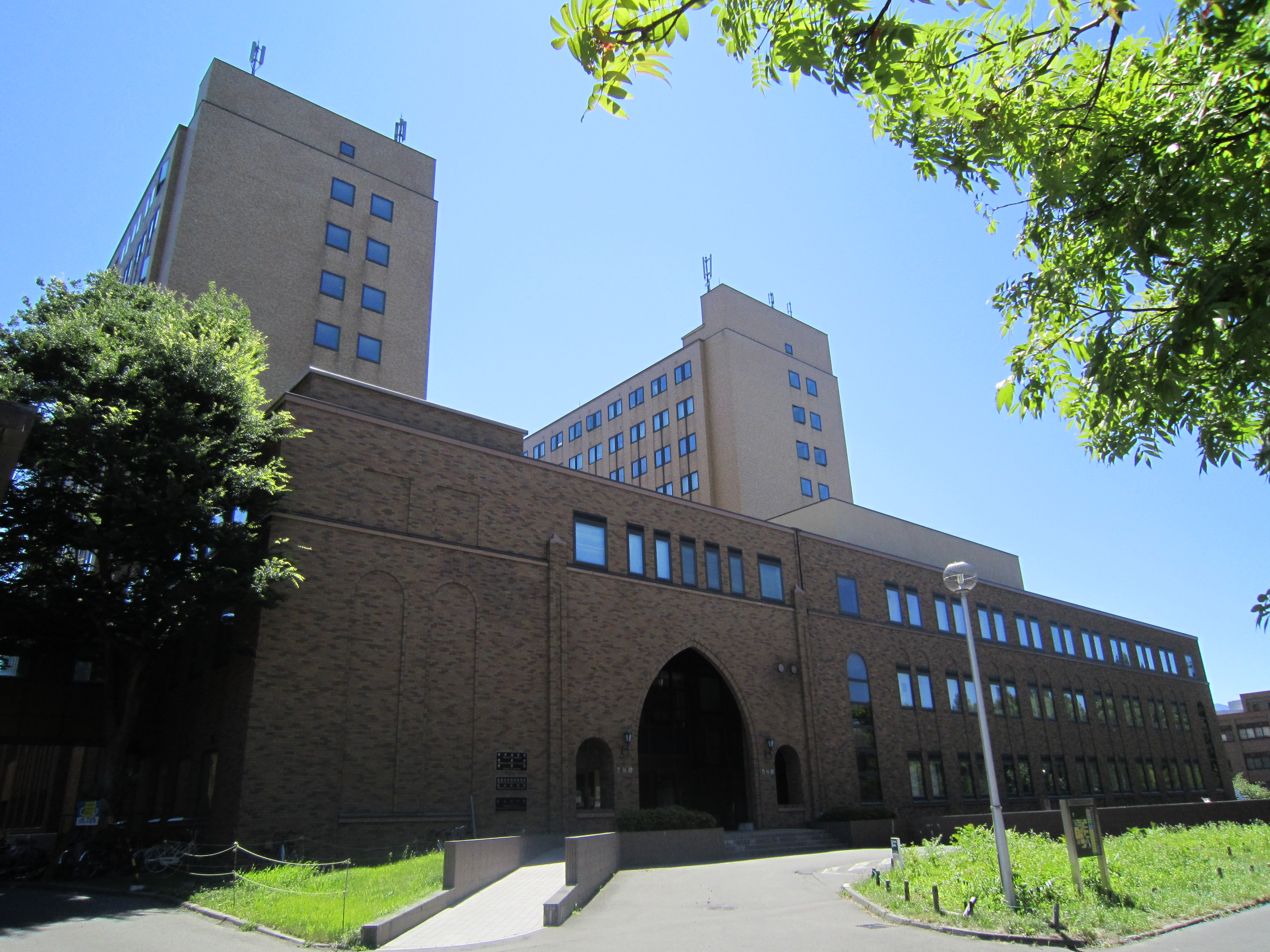 Hokkaido University School of Science